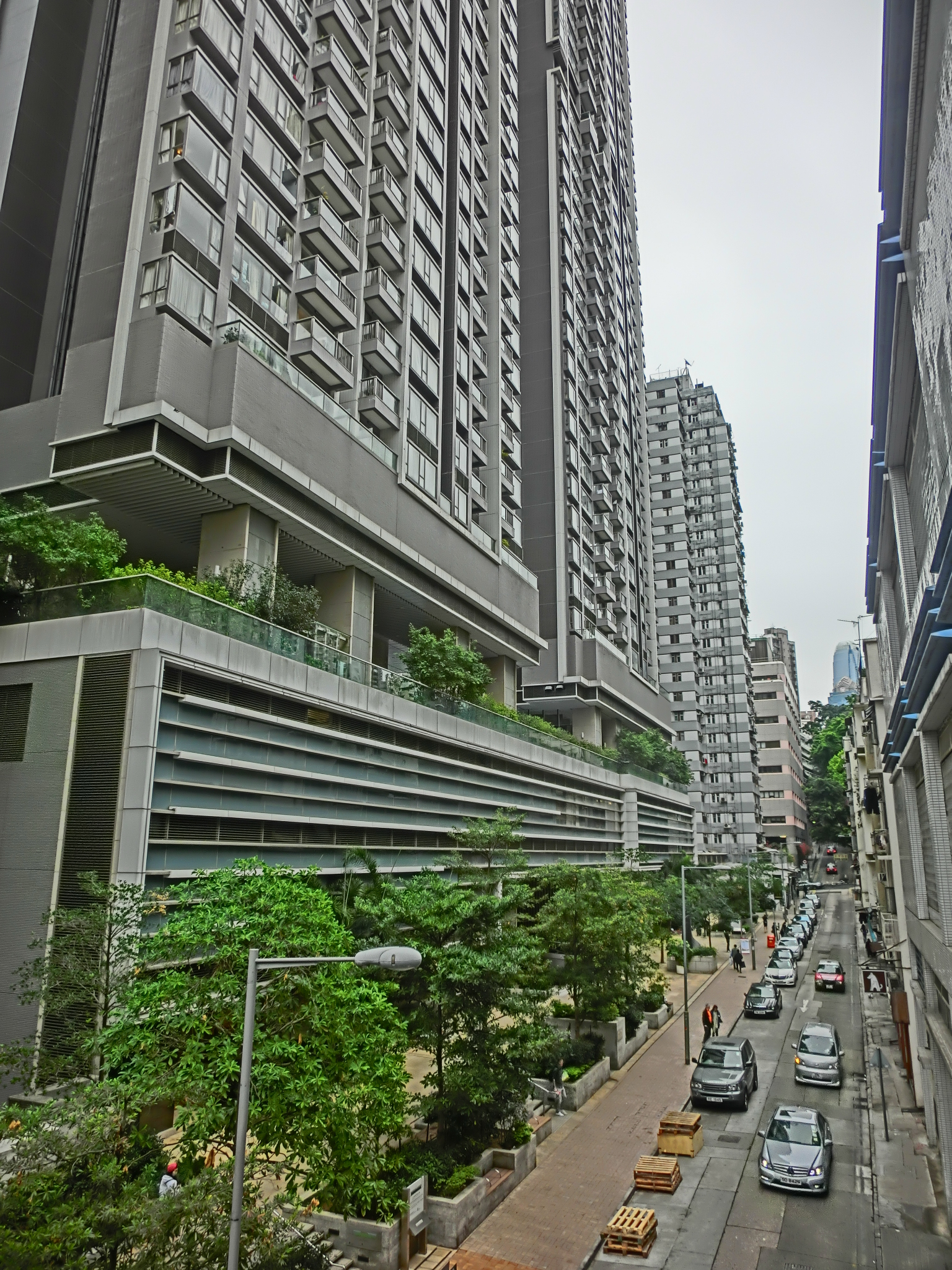 正街, Centre Street, Sai Ying Pun, Hong Kong